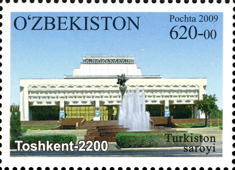 Stamps of Uzbekistan, 2009